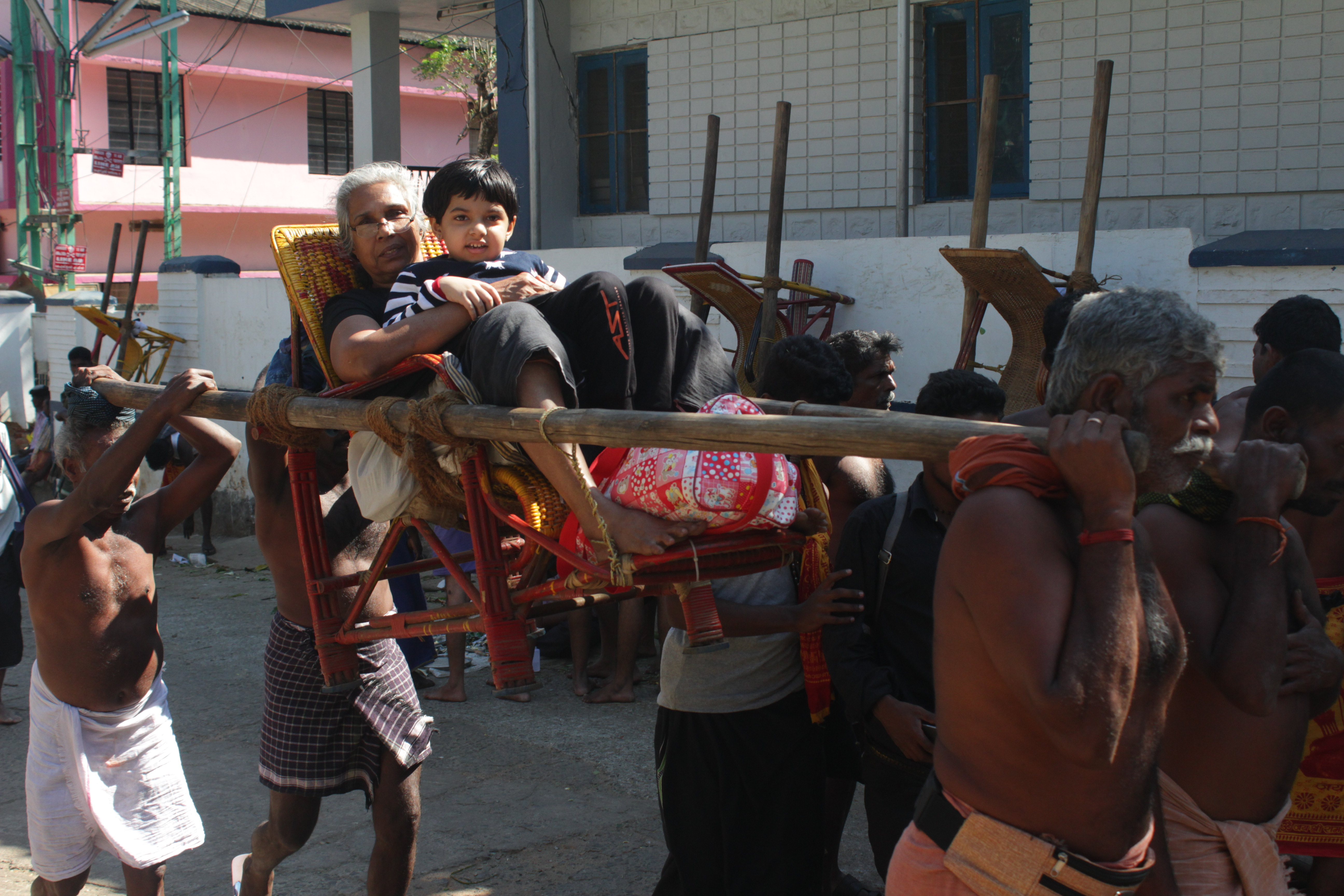 Doli, a palanquin-type carriage in which the elderly and the physically-challenged devotees are carried by four men on their shoulders between Pampa and Sabarimala.